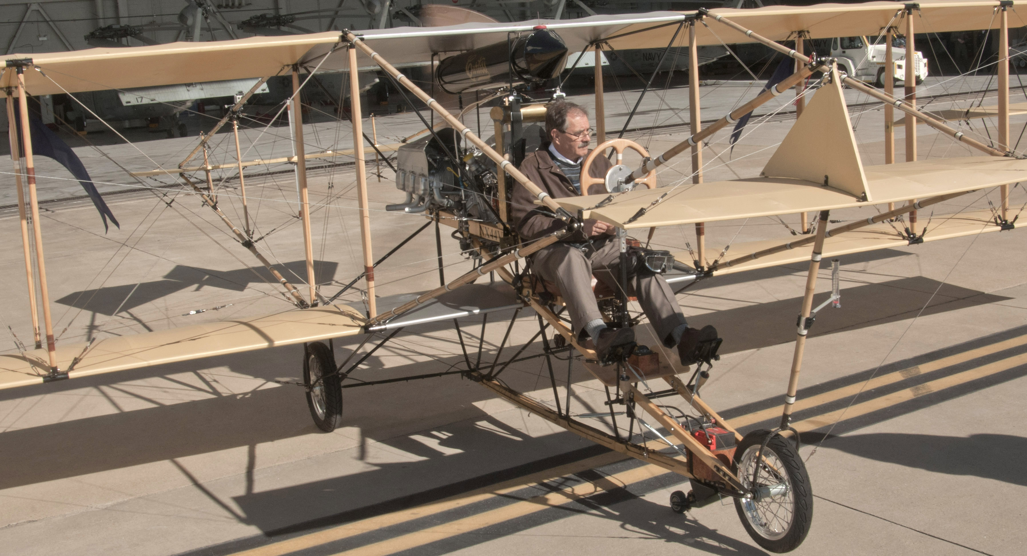 NORFOLK, Va. (Nov. 12, 2010) Retired Navy Cmdr. Bob Coolbaugh, prepares to fly his replica Ely-Curtiss Pusher aircraft on board Naval Station Norfolk, as part of a ceremony to commemorate 100 years of naval aviation. The orginal Curtis Pusher flown by Eugene Ely took off from the light cruiser USS Birmingham on Nov. 14, 1910 marking the beginning of Naval Aviation. (U.S. Navy photo by Mass Communication Specialist 3rd Class Richard J. Stevens/Released)